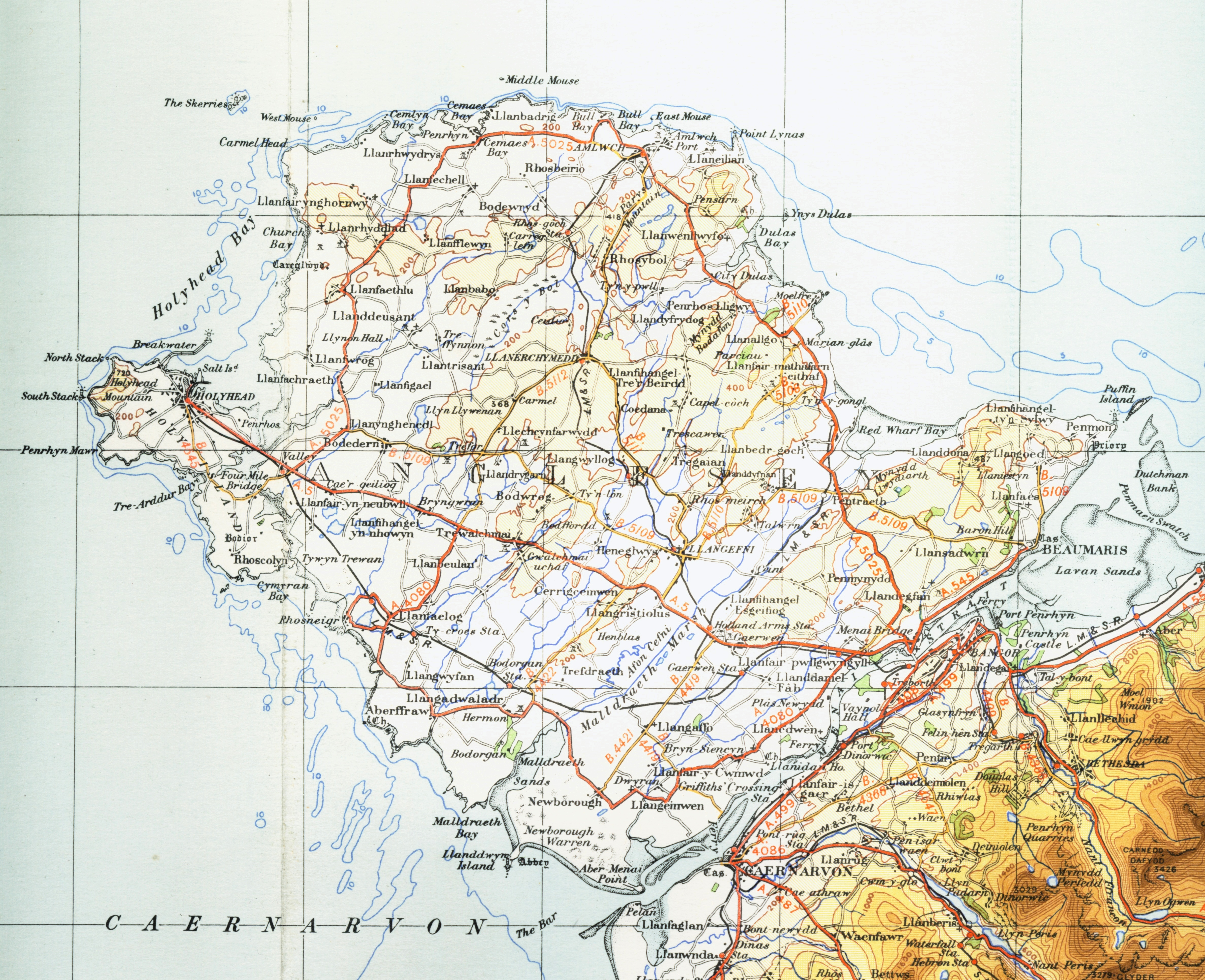 Map of Isle of Anglesey from 1946. Scale 0.25 inch to the mile 600DPI Sheet 4 "north wales and manchester" fourth edition